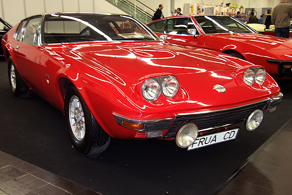 The Frua CD was a revision of the Opel CD and the predecessor of the Bitter CD. Two prototypes were built.